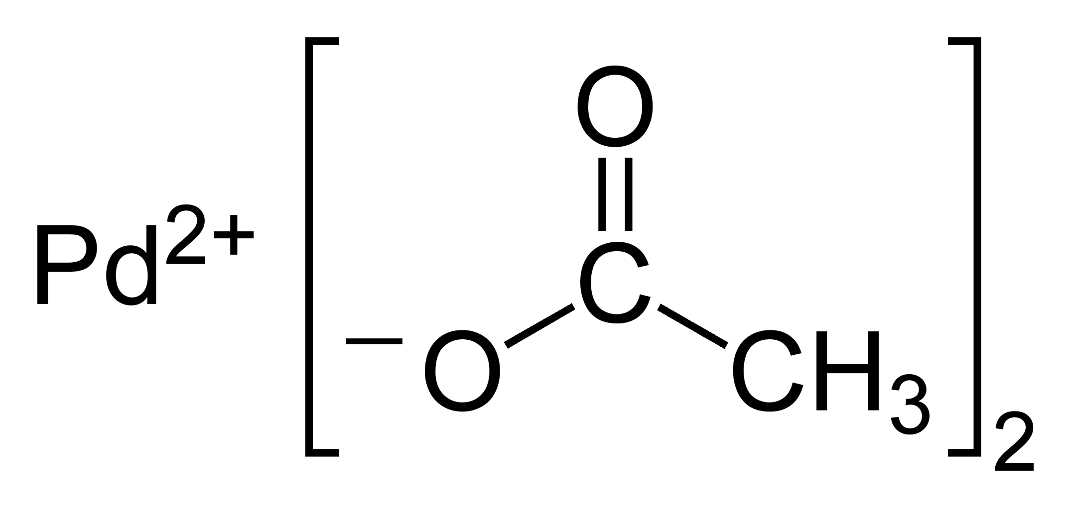 Diagram of the structural formulae of the constituent ions of palladium(II) acetate, Pd(OAc)2. For the actual structure of the substance when solid, see Category:Crystal structures of palladium(II) acetate. Structure drawn in ChemBioDraw Ultra 12.0.